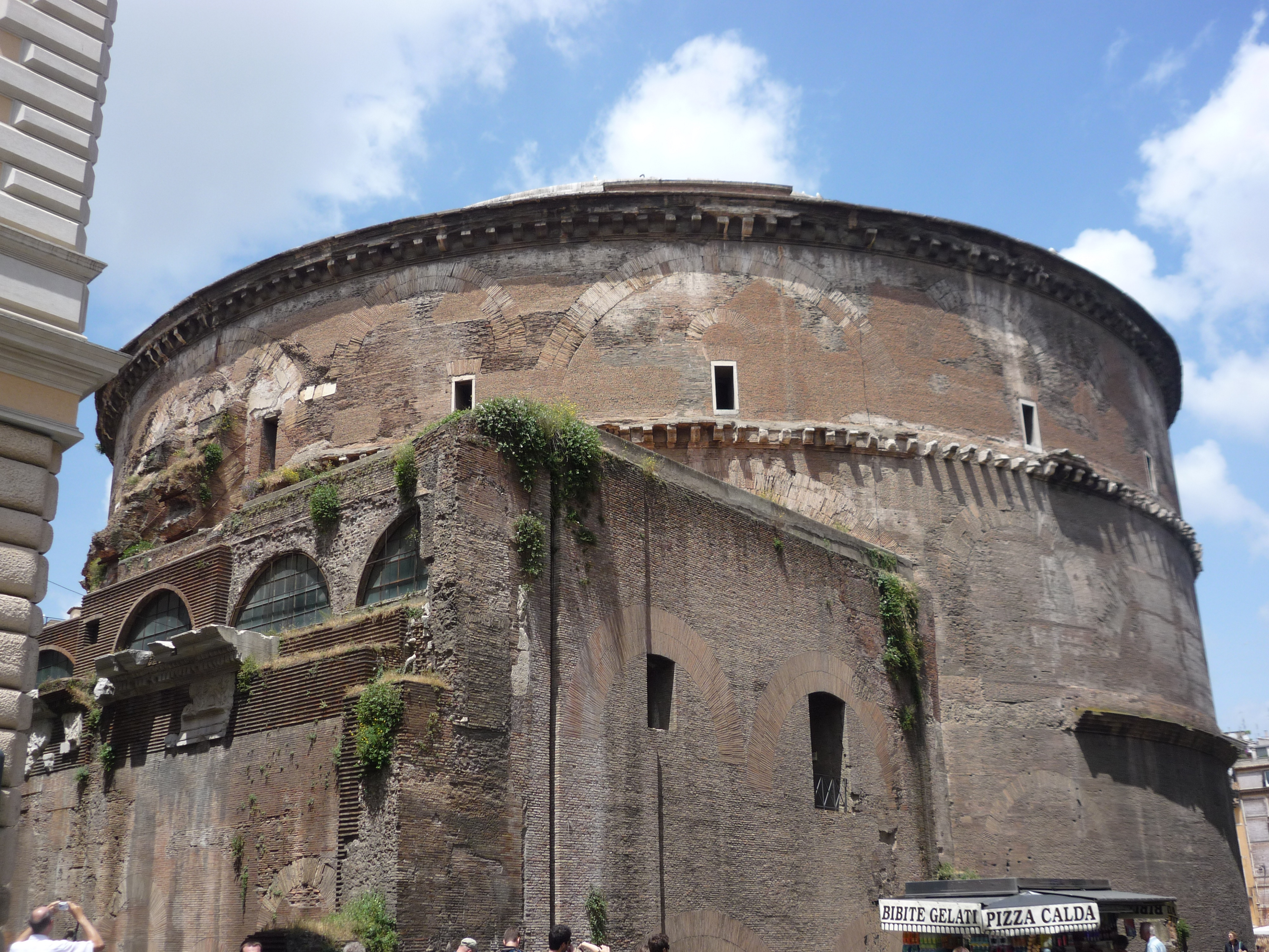 Pantheon (temple to all the gods of ancient Rome) commissioned by Marcus Agrippa